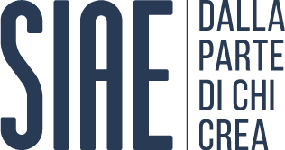 SIAE new logo